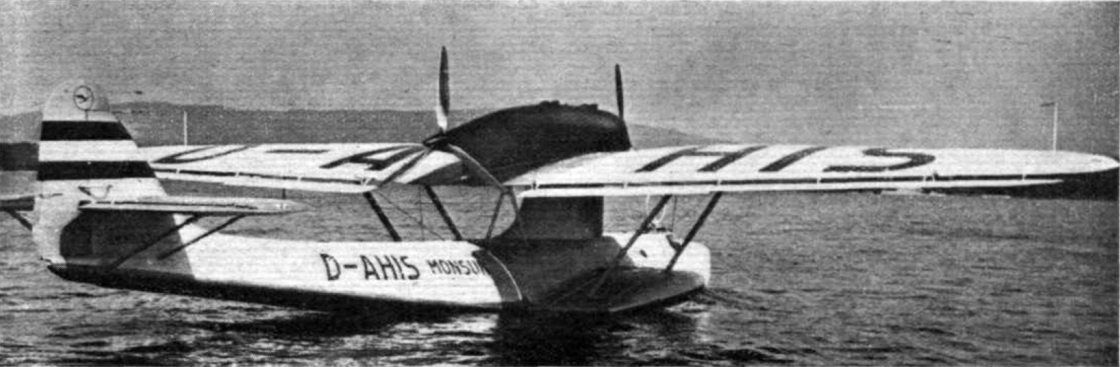 The German Lufthansa Dornier Do 18A flying boat (D-AHIS "Monsun"). This prototype made its first flight on 16 March 1936 and crashed on 2 November, three of the Lufthansa crew died, two were injured.